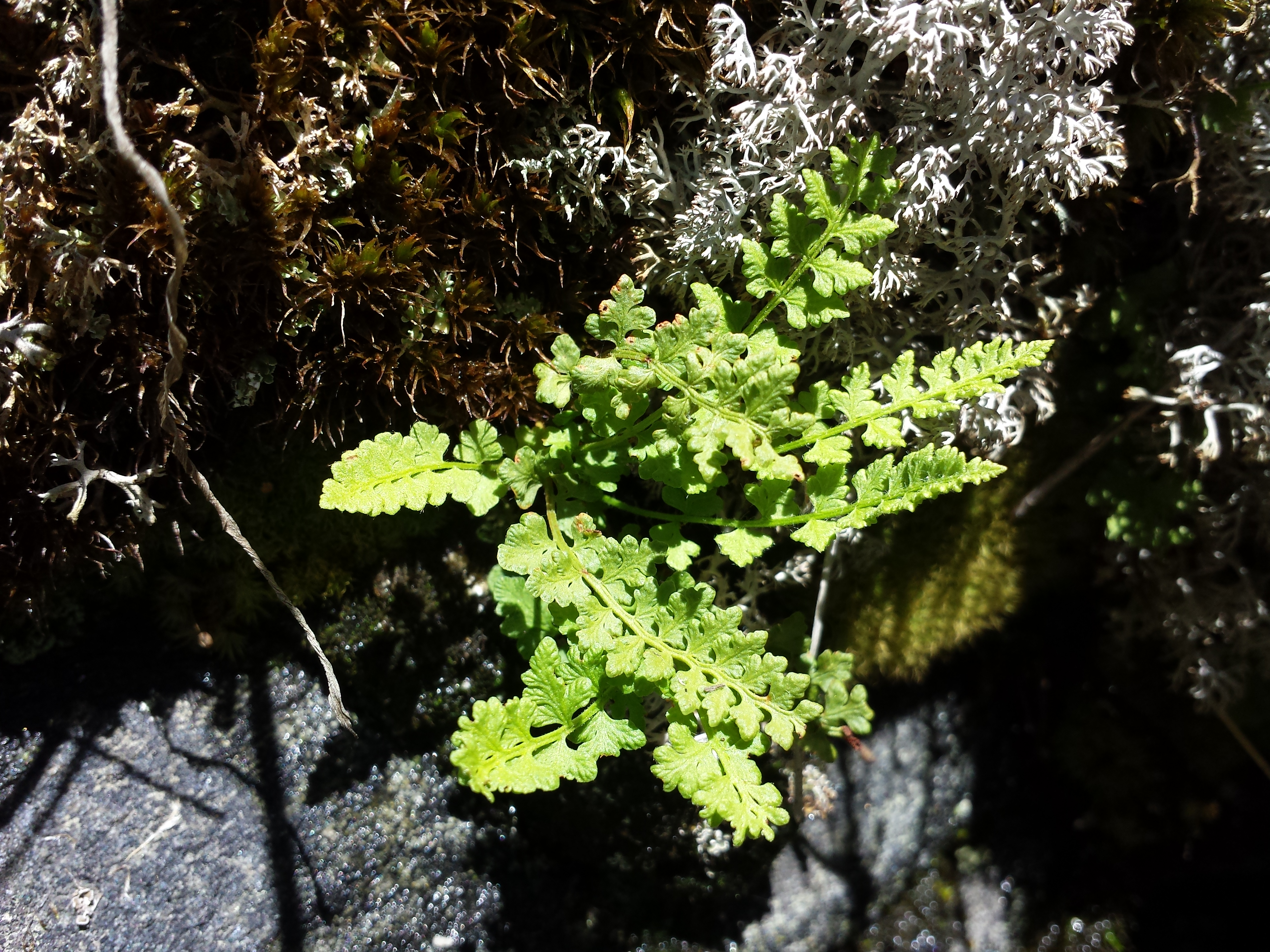 Habitus Taxonym: Woodsia alpina ss Fischer et al. EfÖLS 2008 ISBN 978-3-85474-187-9 Location: Wotansfelsen in between Albrechtsberg an der Großen Krems and Nöhagen, district Krems-Land, Lower Austria - ca. 610 m a.s.l. Habitat: rock